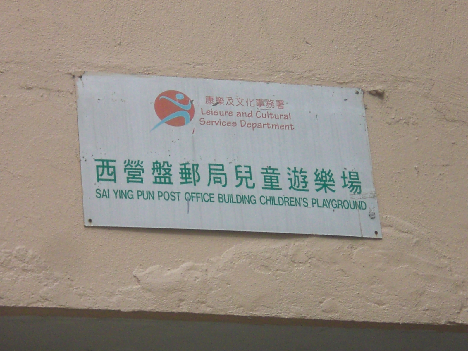 西營盤